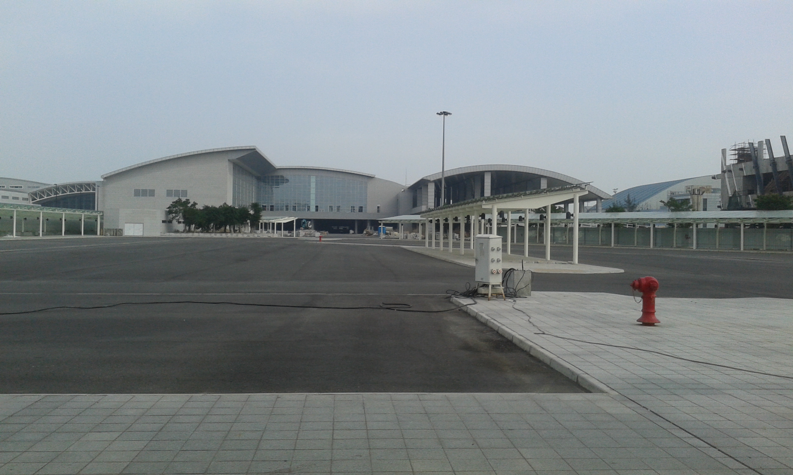 Taipa Ferry Terminal